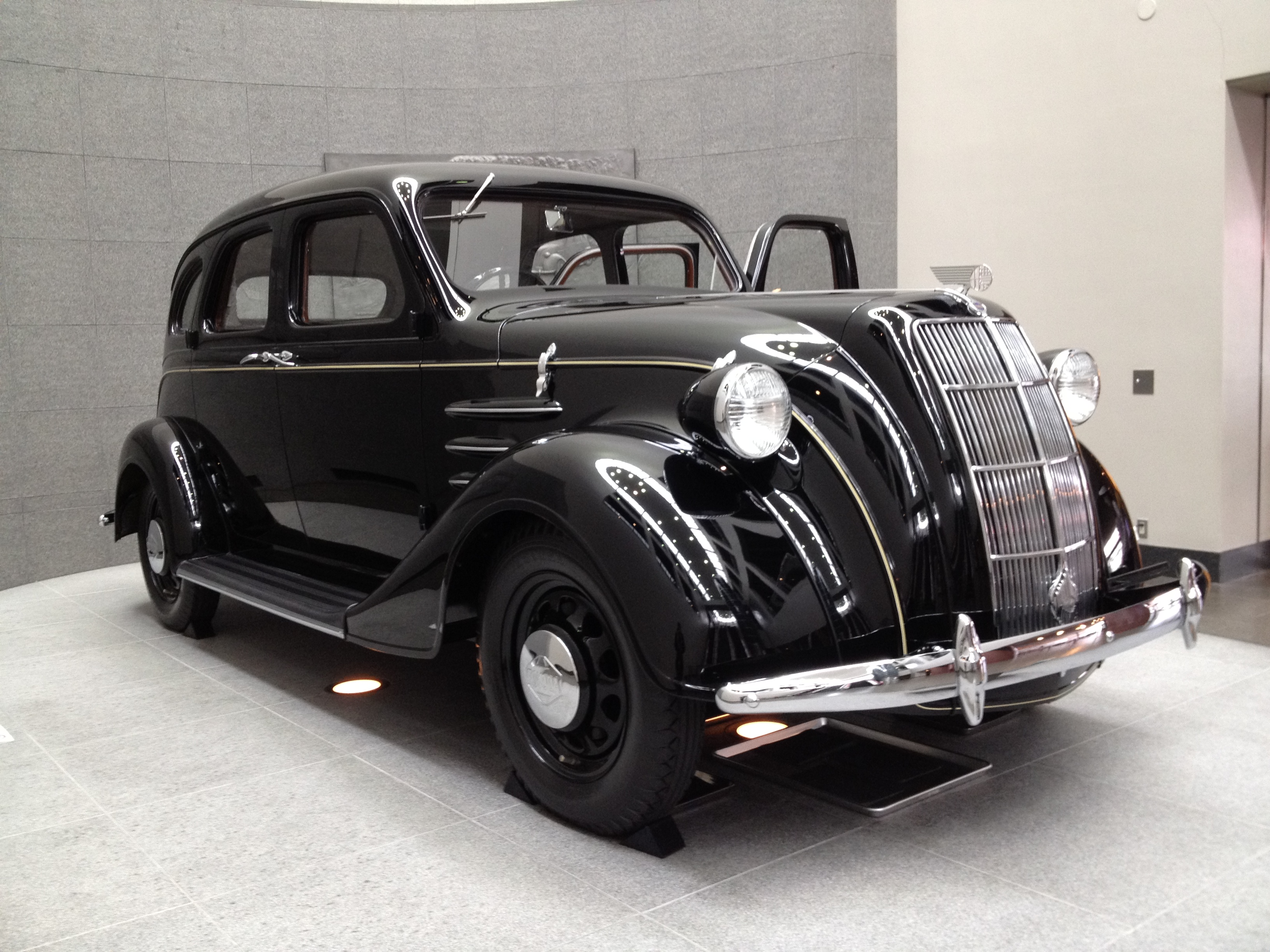 Toyoda (not "Toyota") AA was Toyota's first production model inroduced in 1936. Few months after releasing AA, its company name was changed from Toyoda to Toyota.